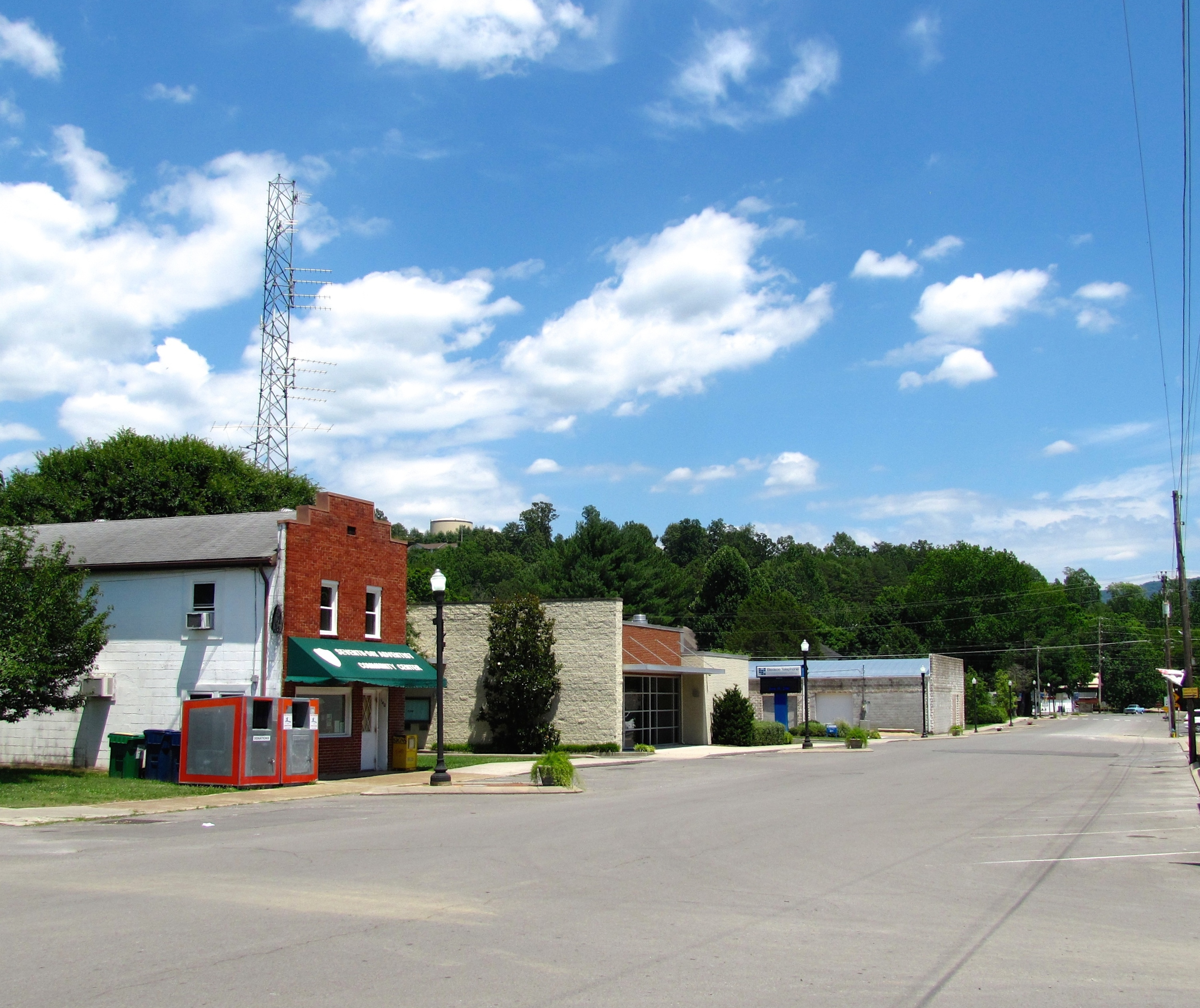 Buildings along Cherry Street in Dunlap, Tennessee, United States, looking east from its intersection with Walnut Street.